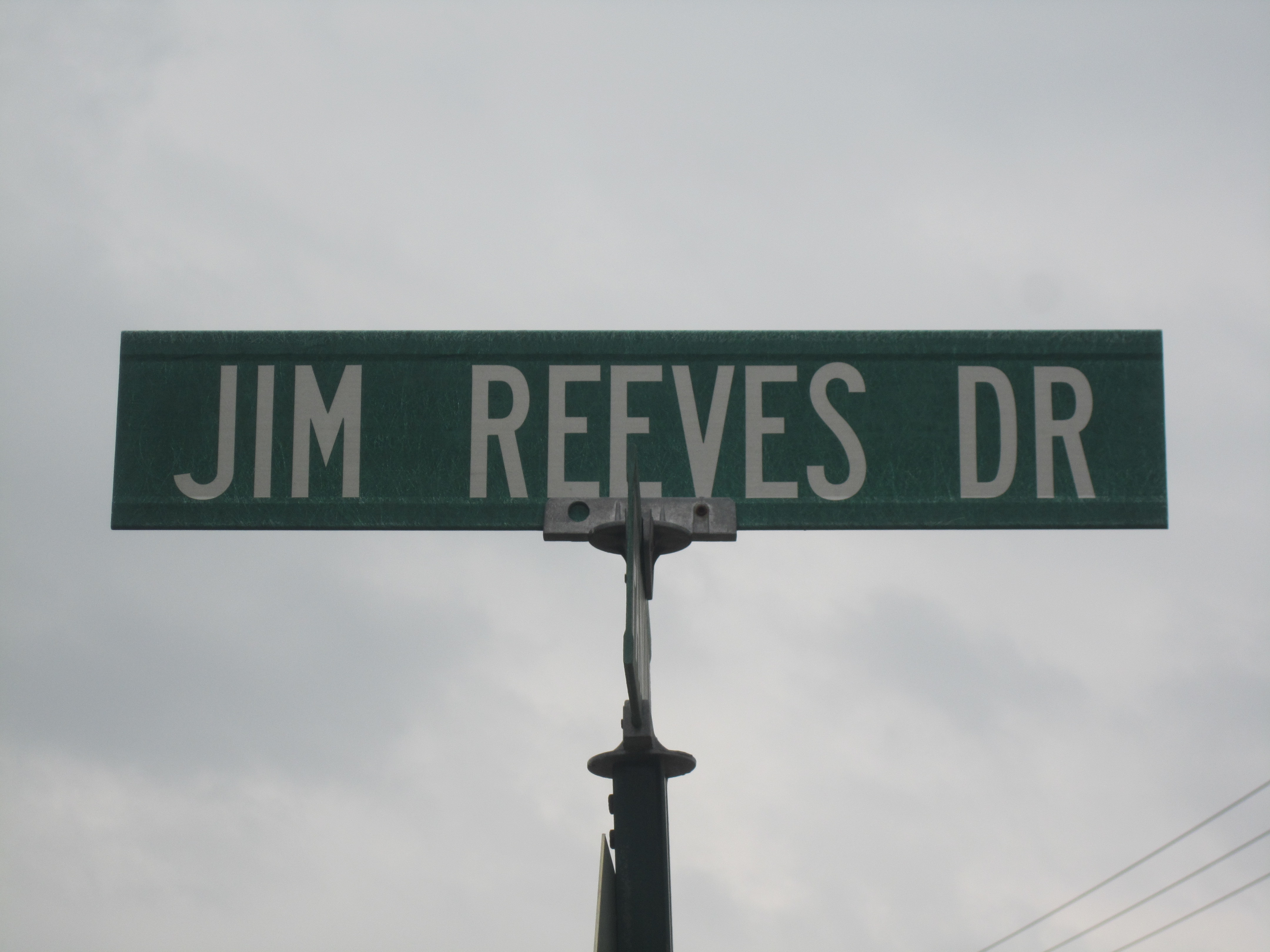 I took photo with Canon camera in Carthage, TX.